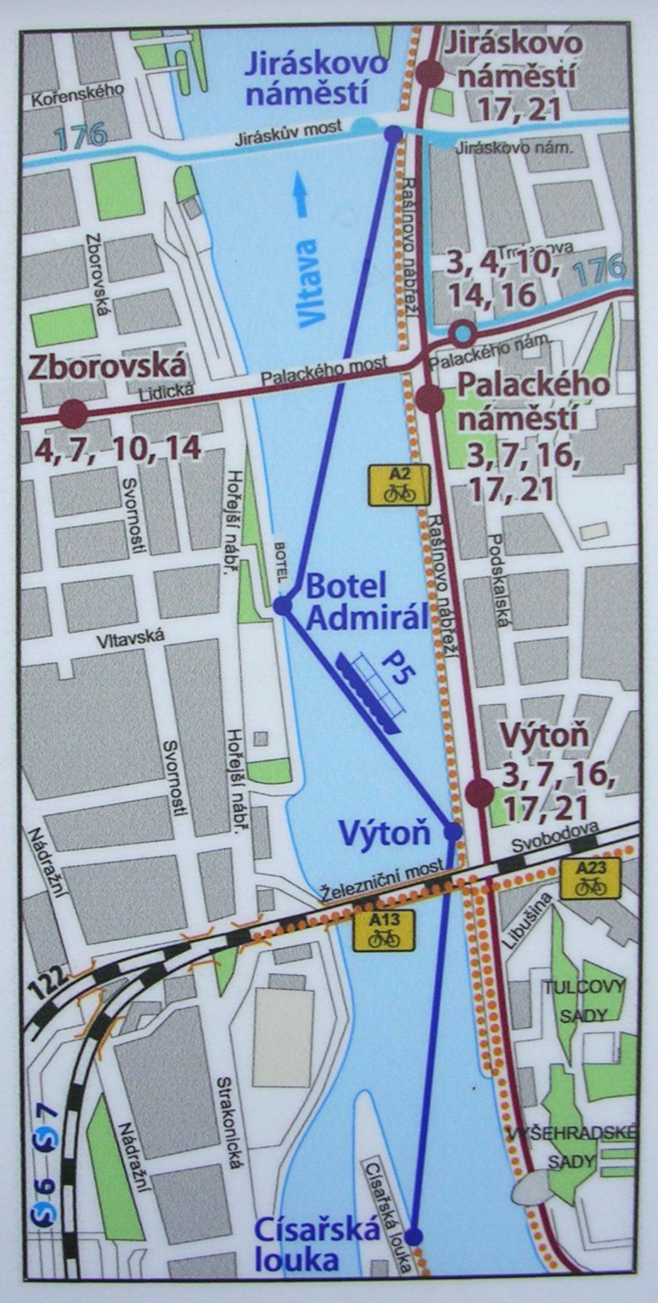 Ferry P5, Prague, the Czech Republic.